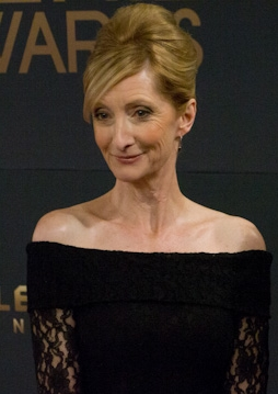 Sheila McCarthy at the 2012 Genie Awards